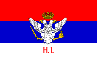 My nextdoor friend, Petar Jovovich; made this himself according to the book of Radosh Ljushich, "Serbian dynasties" as well as several other photographs of the map; naturally, he realised all rights to it.